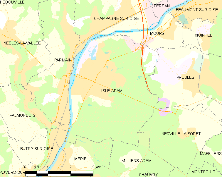 Map of French municipality L'Isle-Adam